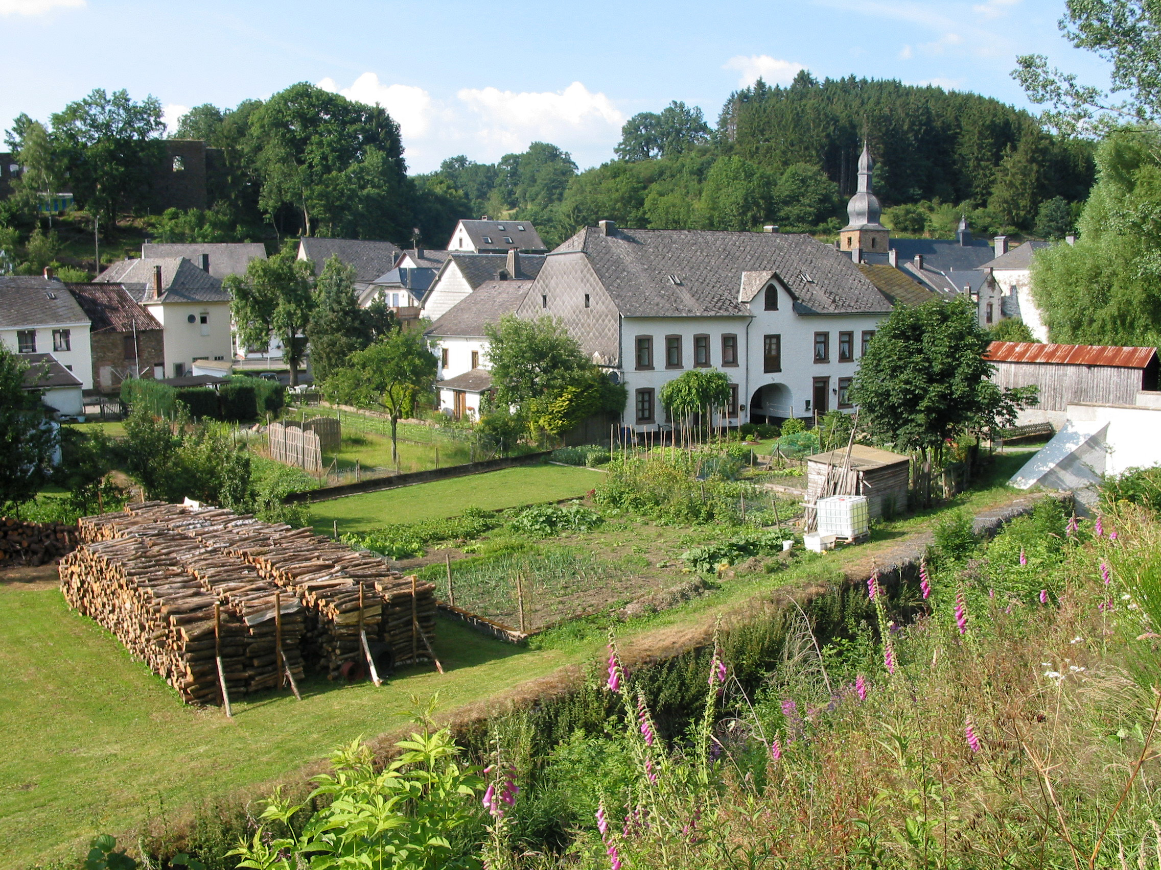 Burg-Reuland (Belgium), the village and the old fortified castle (XIII - XIVth centuries).